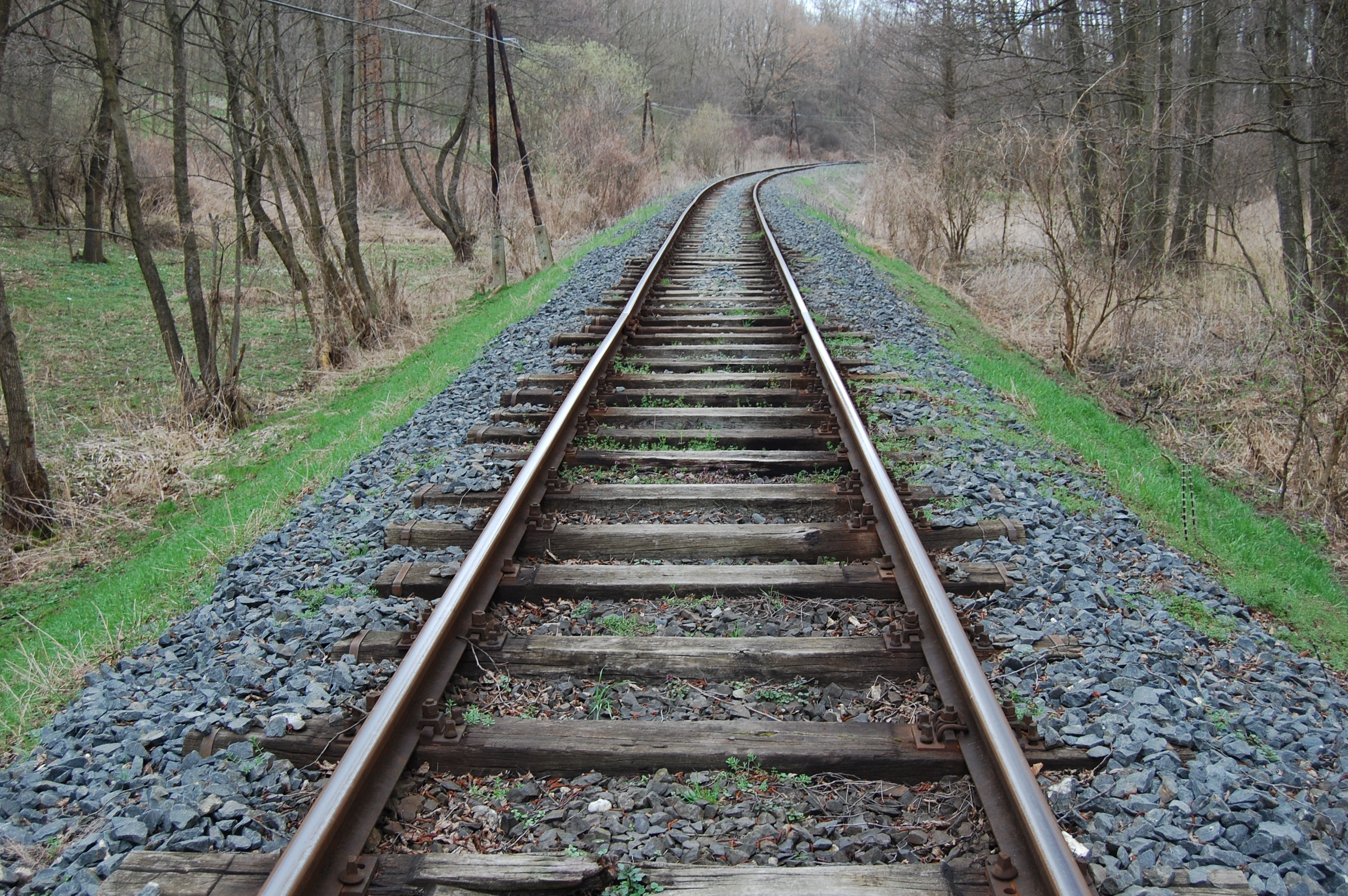 Detail of the railway line Körmend-Zalalövő, Between Szőce and Zalalövő; Hungary